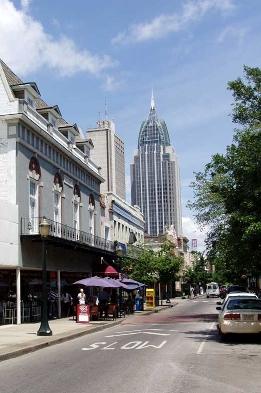 A view along Dauphin Street within the Lower Dauphin Street Historic District in Mobile, Alabama.